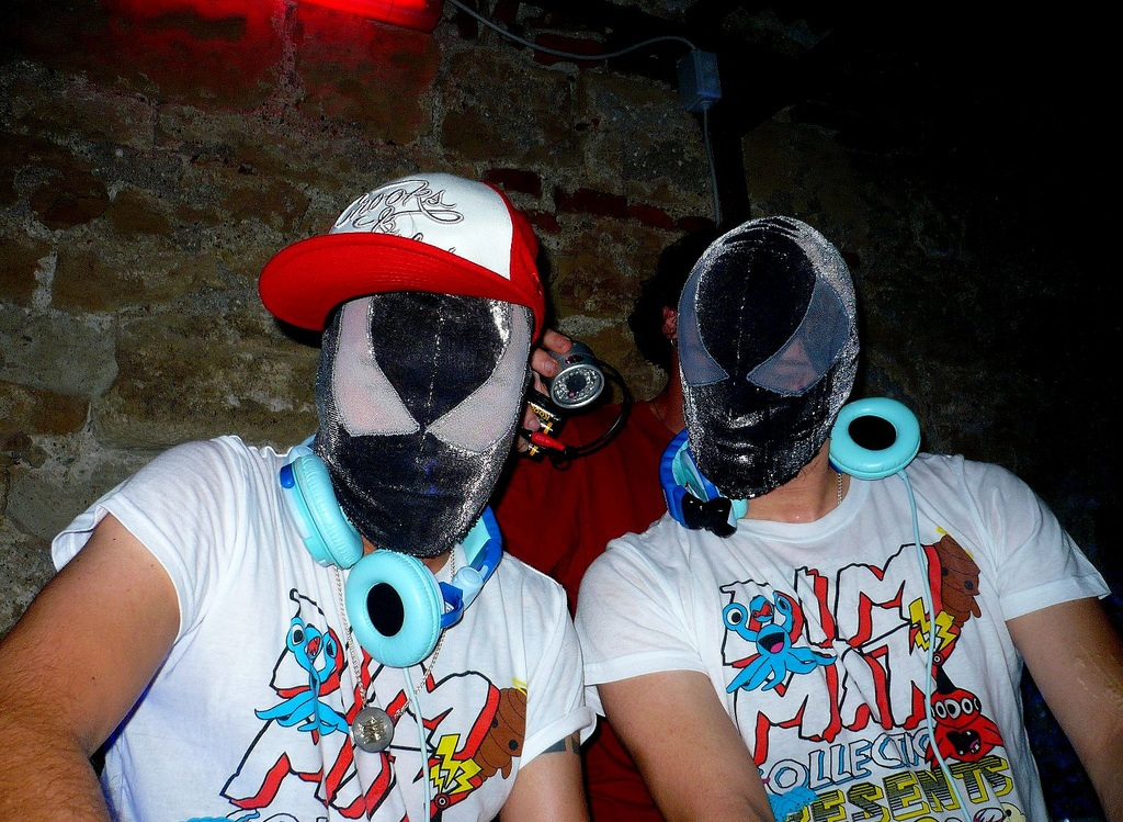 The Bloody Beetroots. Bloody Beetroots @ Livorno